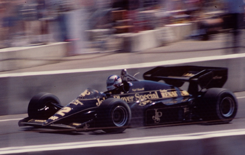 Nigel Mansell in his John Player Special Lotus-Renault. Nigel was the 1992 World Driving Champion. He placed 6th at this GP after losing his gearbox on Lap 64.